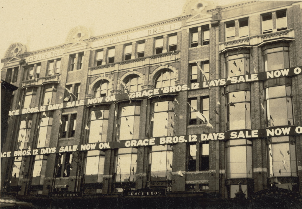 The Broadway Grace Bros. store in the 1930s. General information about the Powerhouse Museum Collection is available at